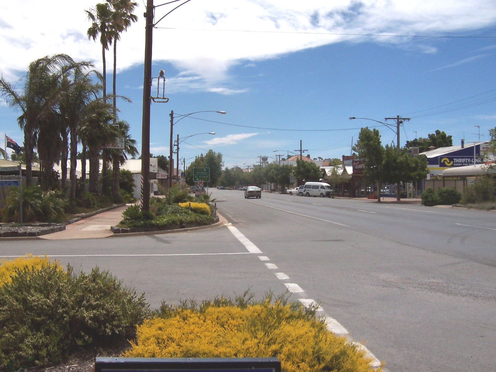 Personal photo taken of High Street Charlton - Summer 2005 (January)